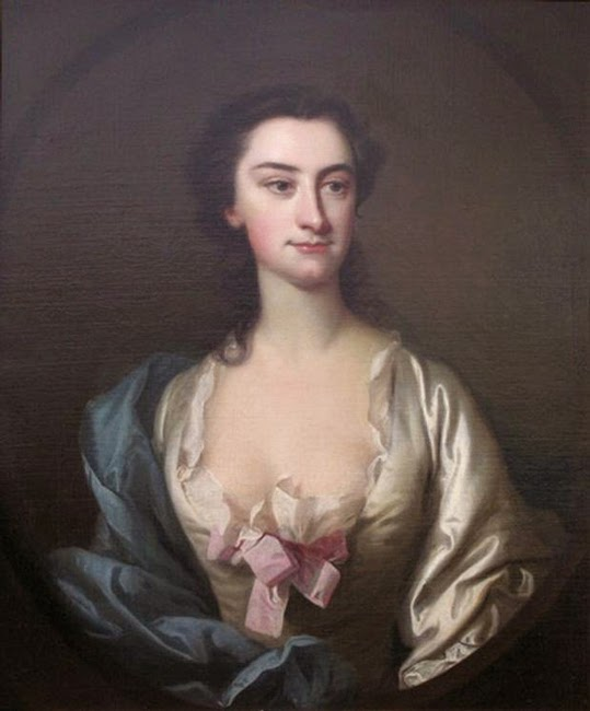 Portrait of soprano Susannah Maria Cibber. See Entry on her in Hercules, the file name is wrong; this is NOT Francesca Cuzzoni. The file name now is correct. Date: 2016-03-29